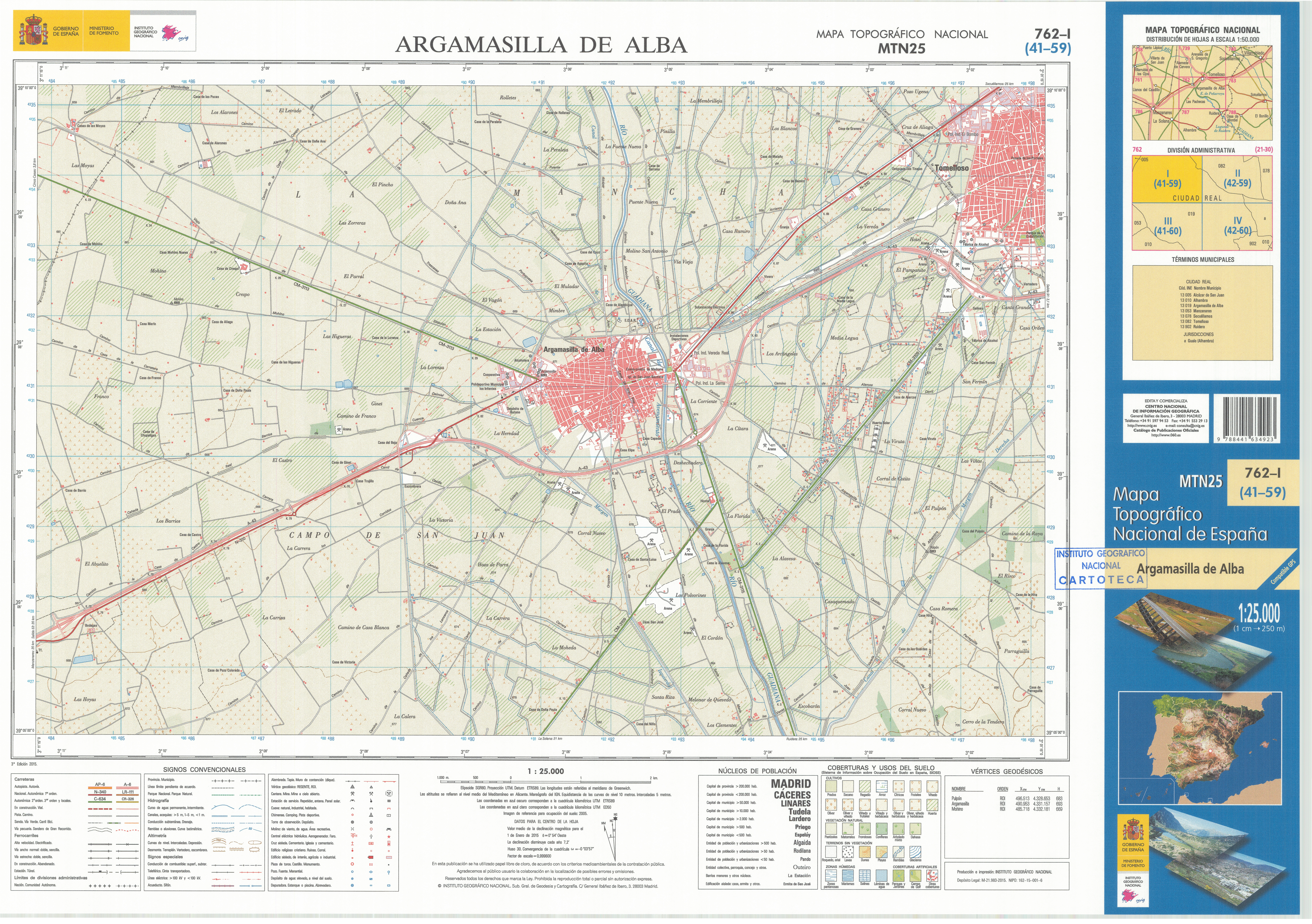 Fragment 0762c1 of the National Topographic Map of Spain in 2015 at a scale of 1:25000 printed and scanned with a resolution of 250 ppi. It shows Argamasilla de Alba.